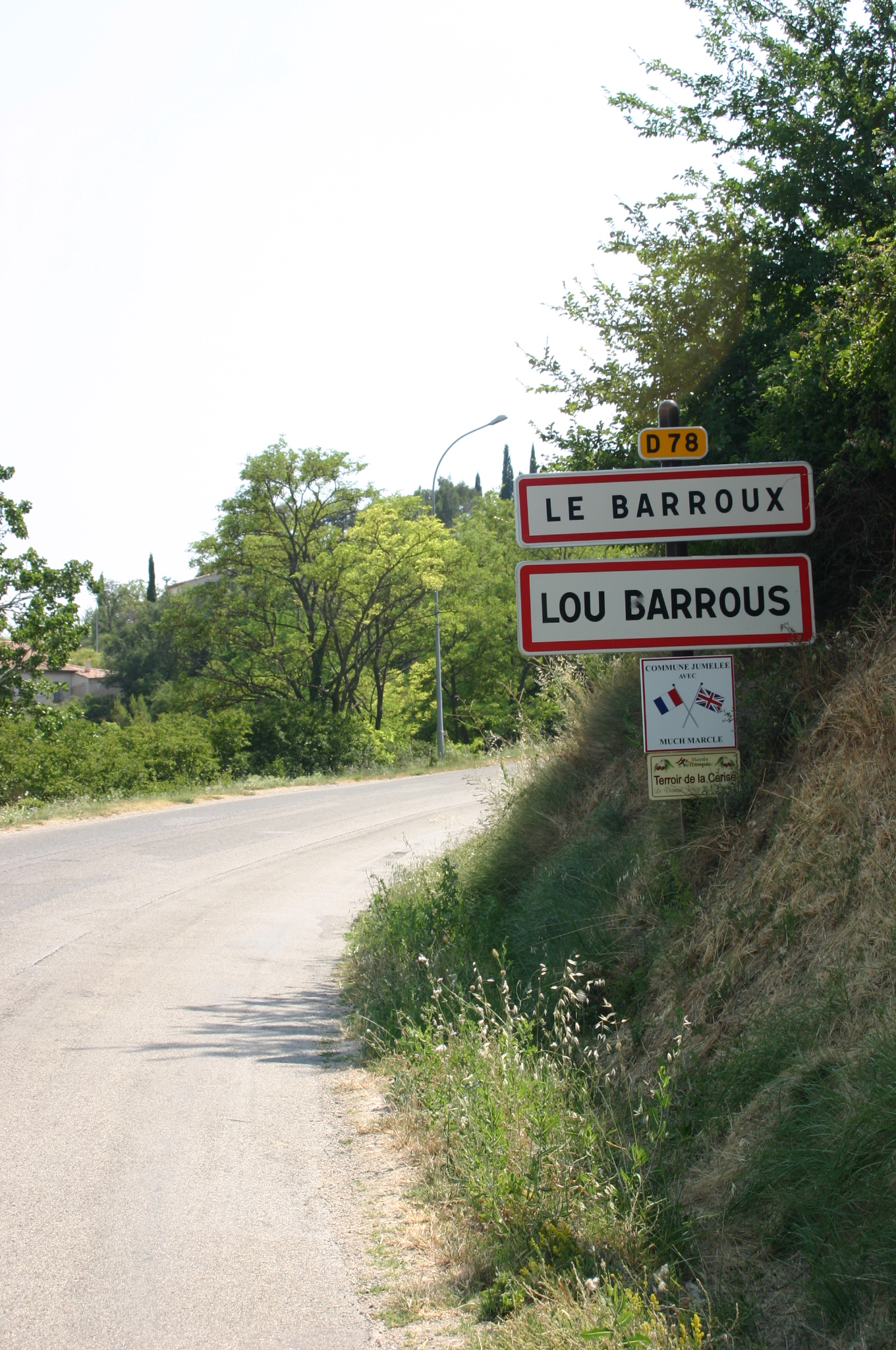 The name of the village in French and Prouvencal. Le Barroux, canton Malaucène, departement Vaucluse, region Provence-Alpes-Côte d'Azur